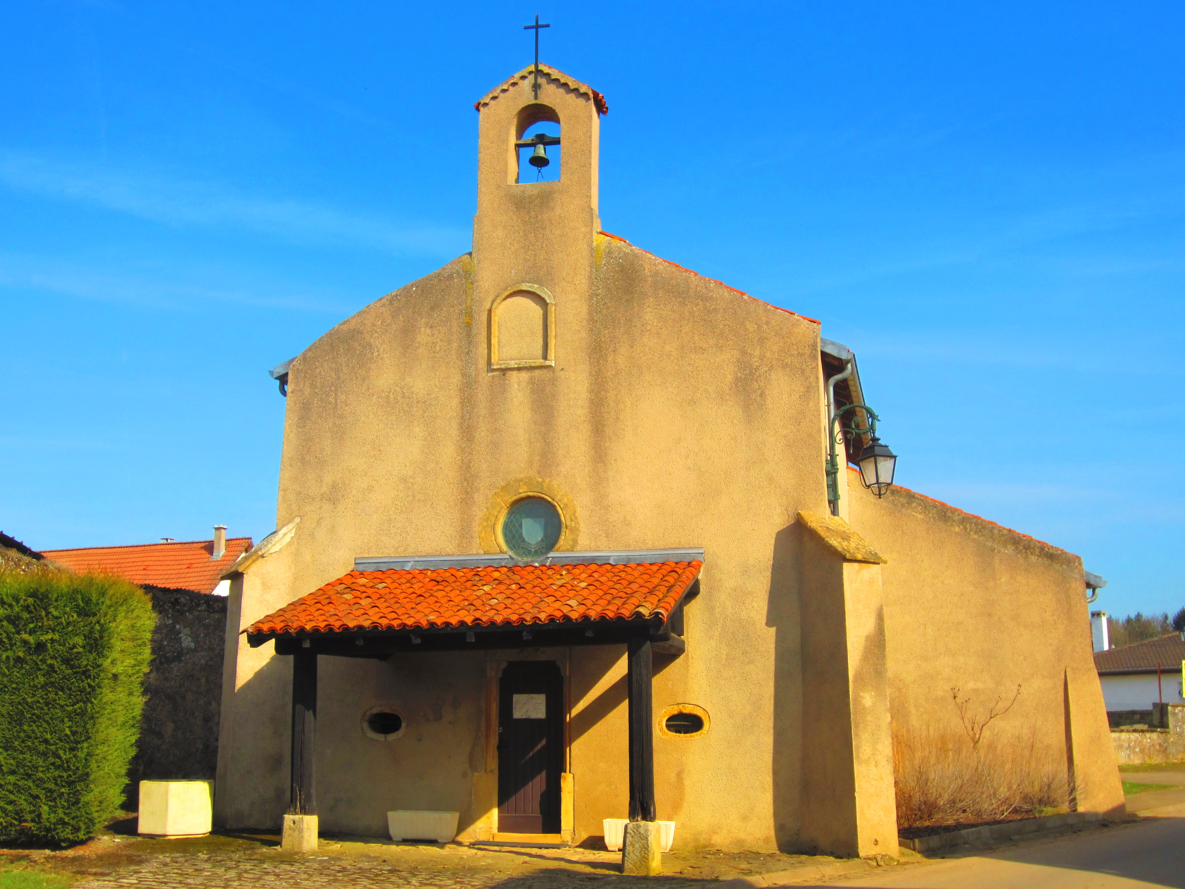 Roussy Bourg chapel